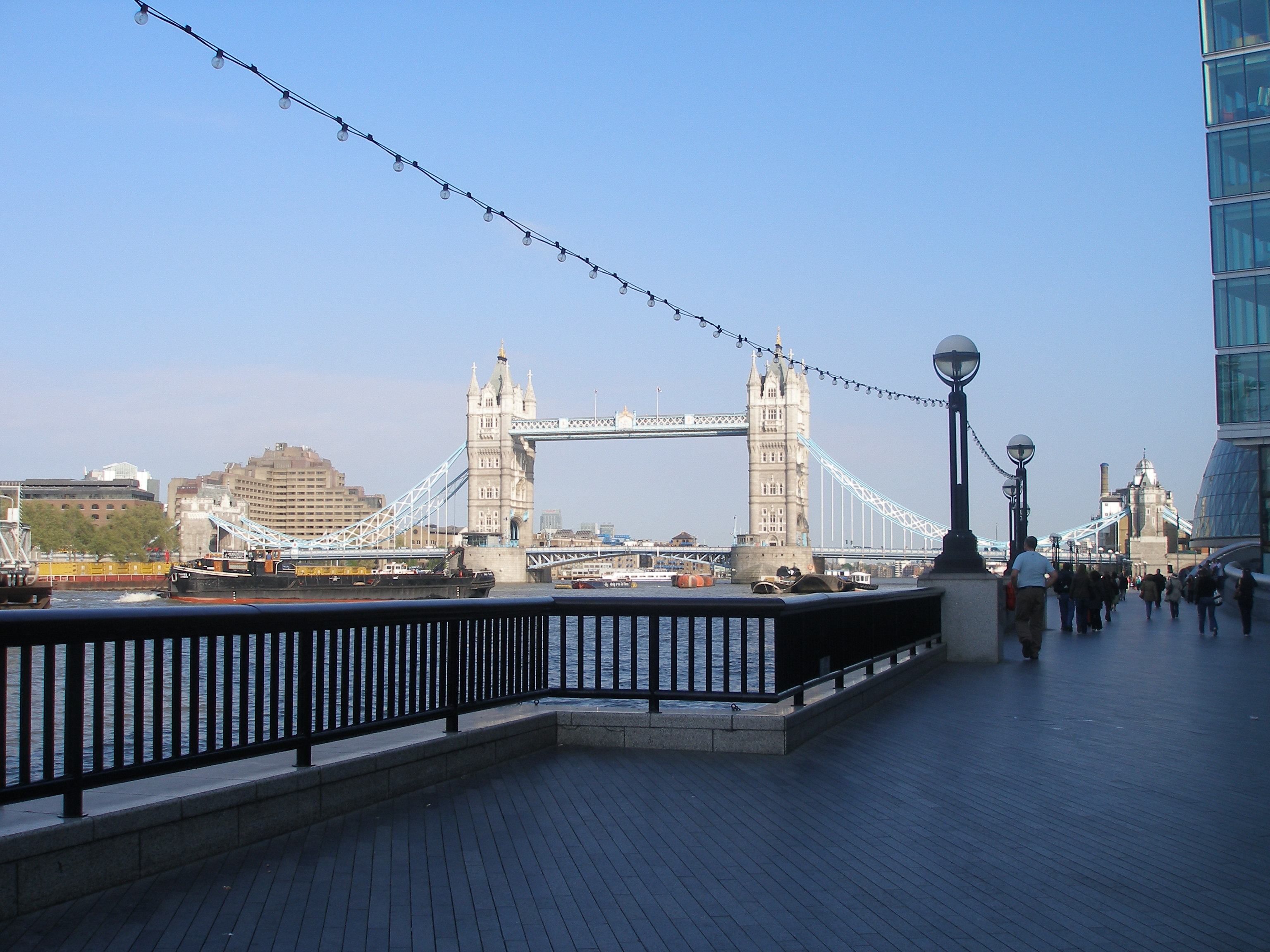 Tower Bridge from the Queen's Walk